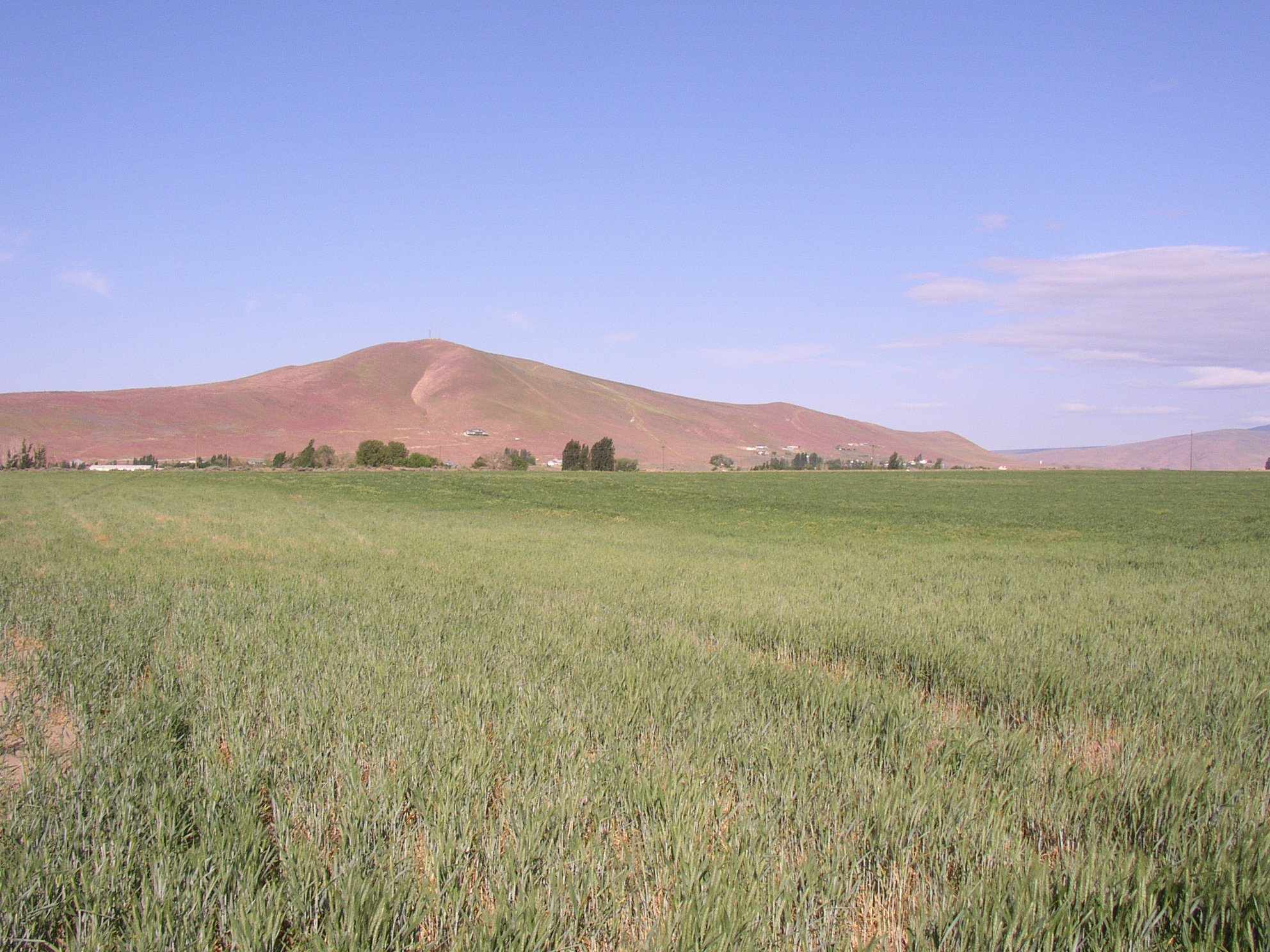 Red Mountain in Washington State as seen on a pleasant May morning in 2007. Photo taken by uploader. All rights released. Skål - Williamborg 22:40, 13 May 2007 (UTC)